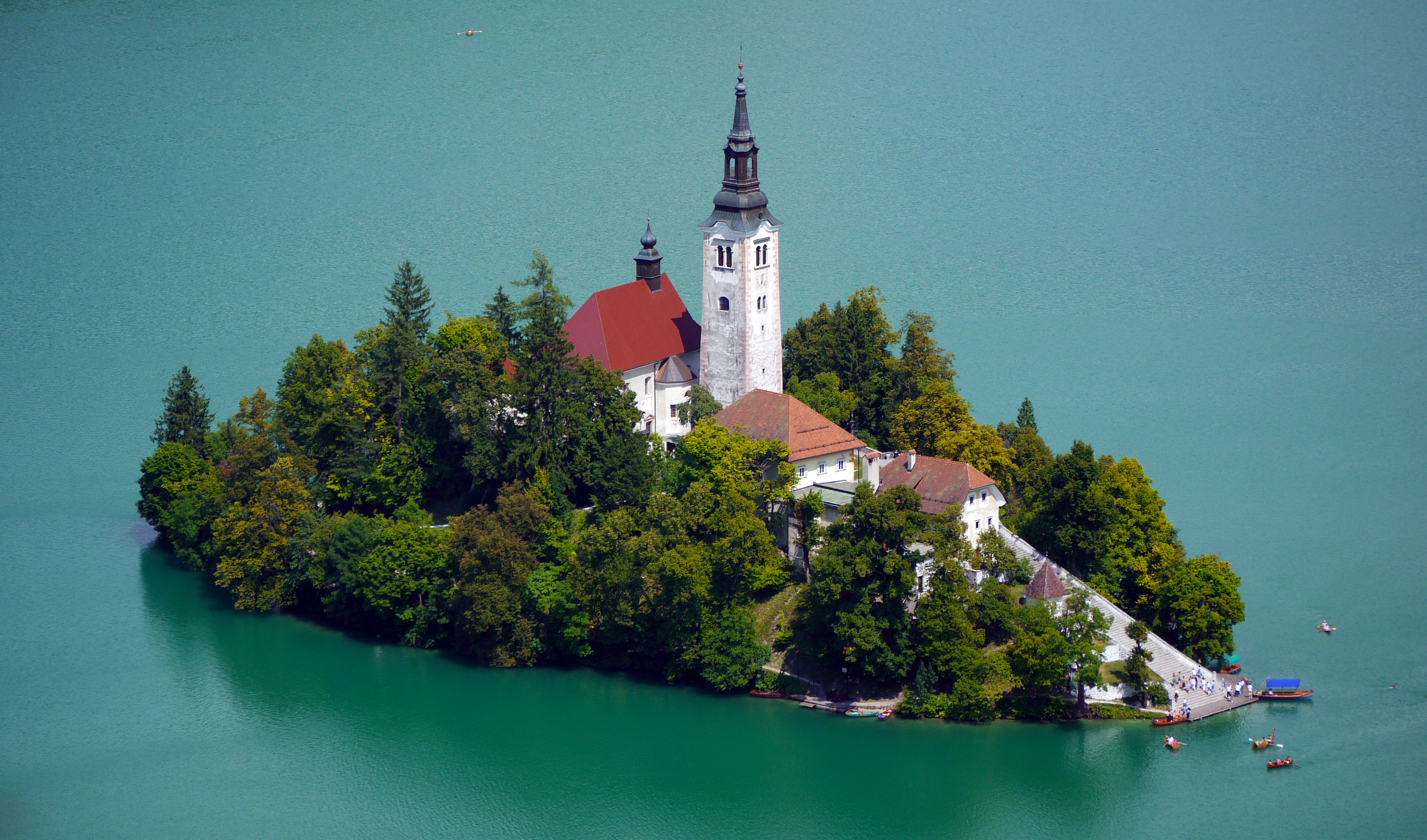 Zoom shot of the Church of the Assumption on a little island in the middle of lake bled. Taken from Mala Osojnica